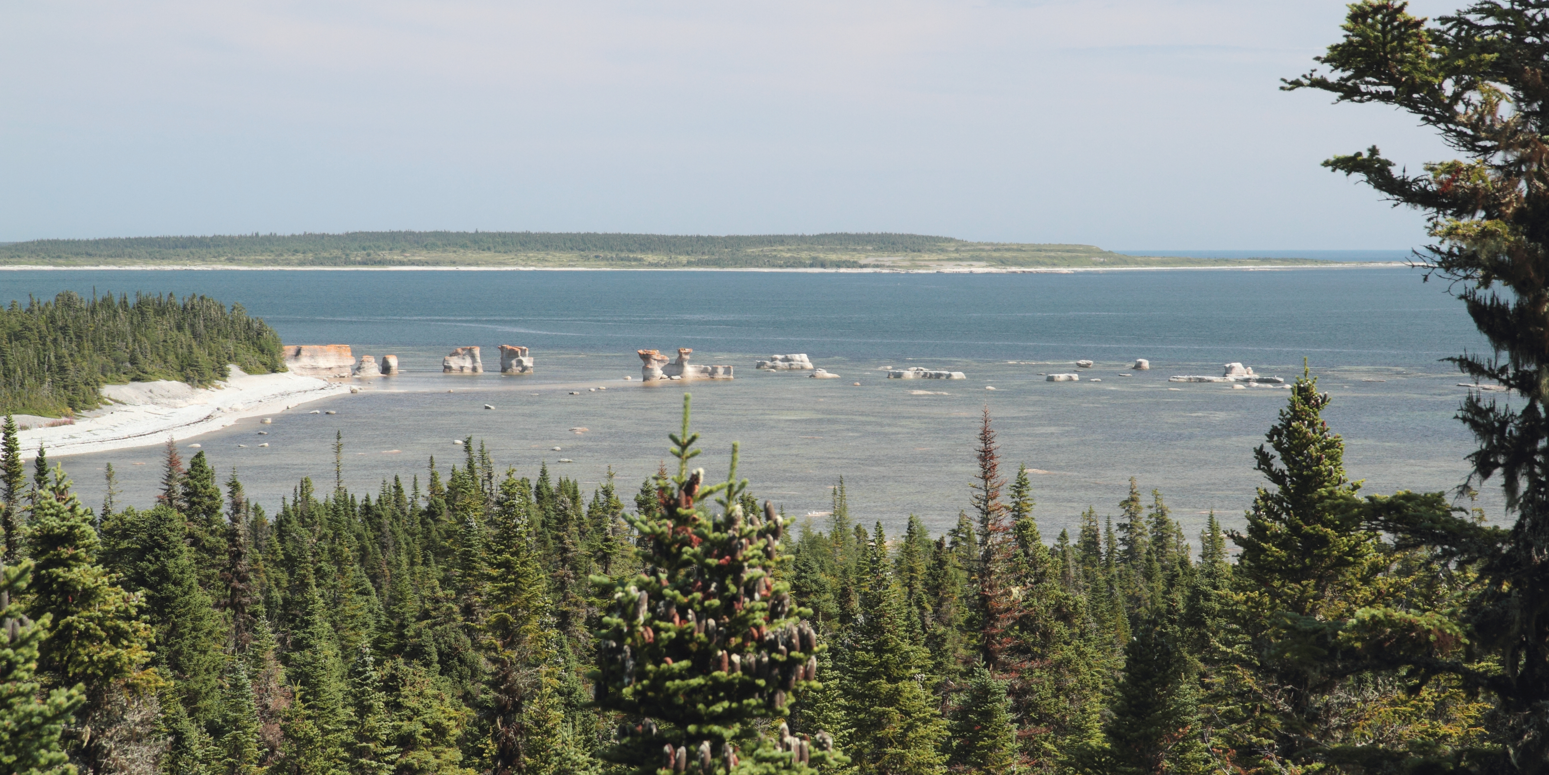 Quarry island, Mingan Archipelago National Park Reserve, Quebec, Canada. Monoliths are visible in the bay and far away Niapiskau island.